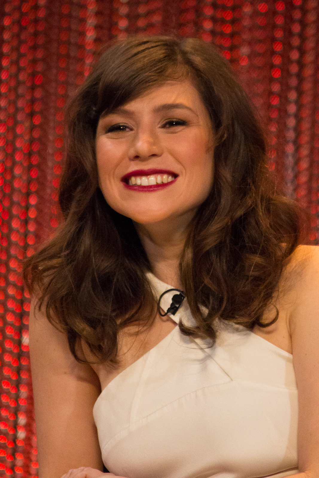 Actress Yael Stone at The Paley Center For Media's PaleyFest 2014 Honoring "Orange Is The New Black"